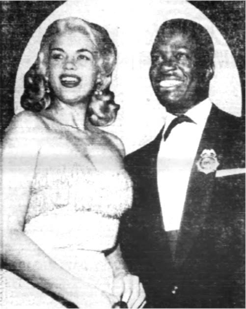 Photo of Tommy Smalls and Jayne Mansfield from the November 17, 1956 issue of The Pittsburgh Courier, page 27. Smalls was "Mayor of Harlem" at the time and was a very successful New York City Disc Jockey. In 1955, he purchased the Harlem nightclub Smalls Paradise from Ed Smalls.